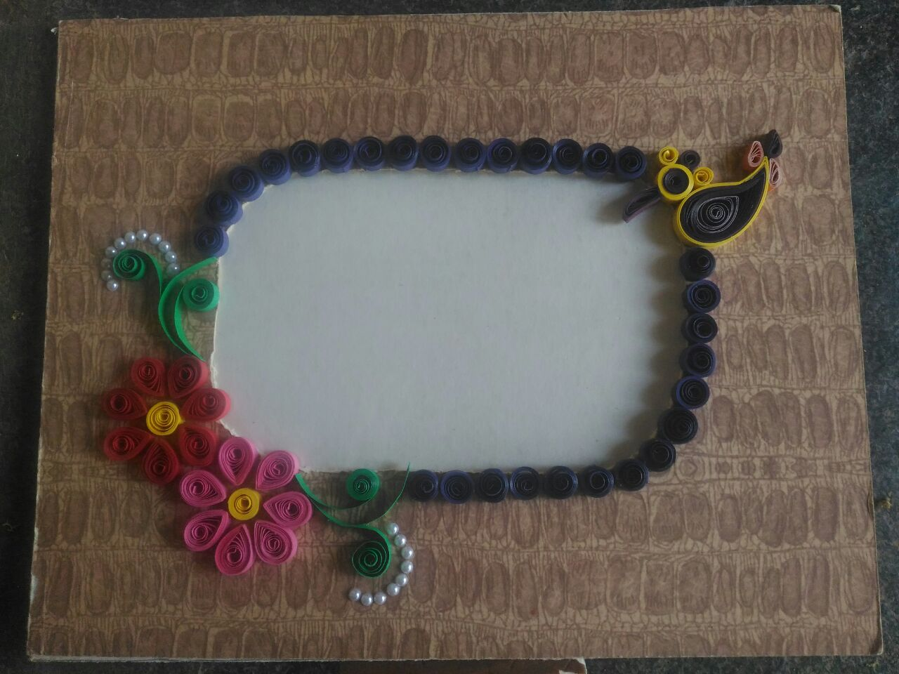 It is a frame made of twilling papers.